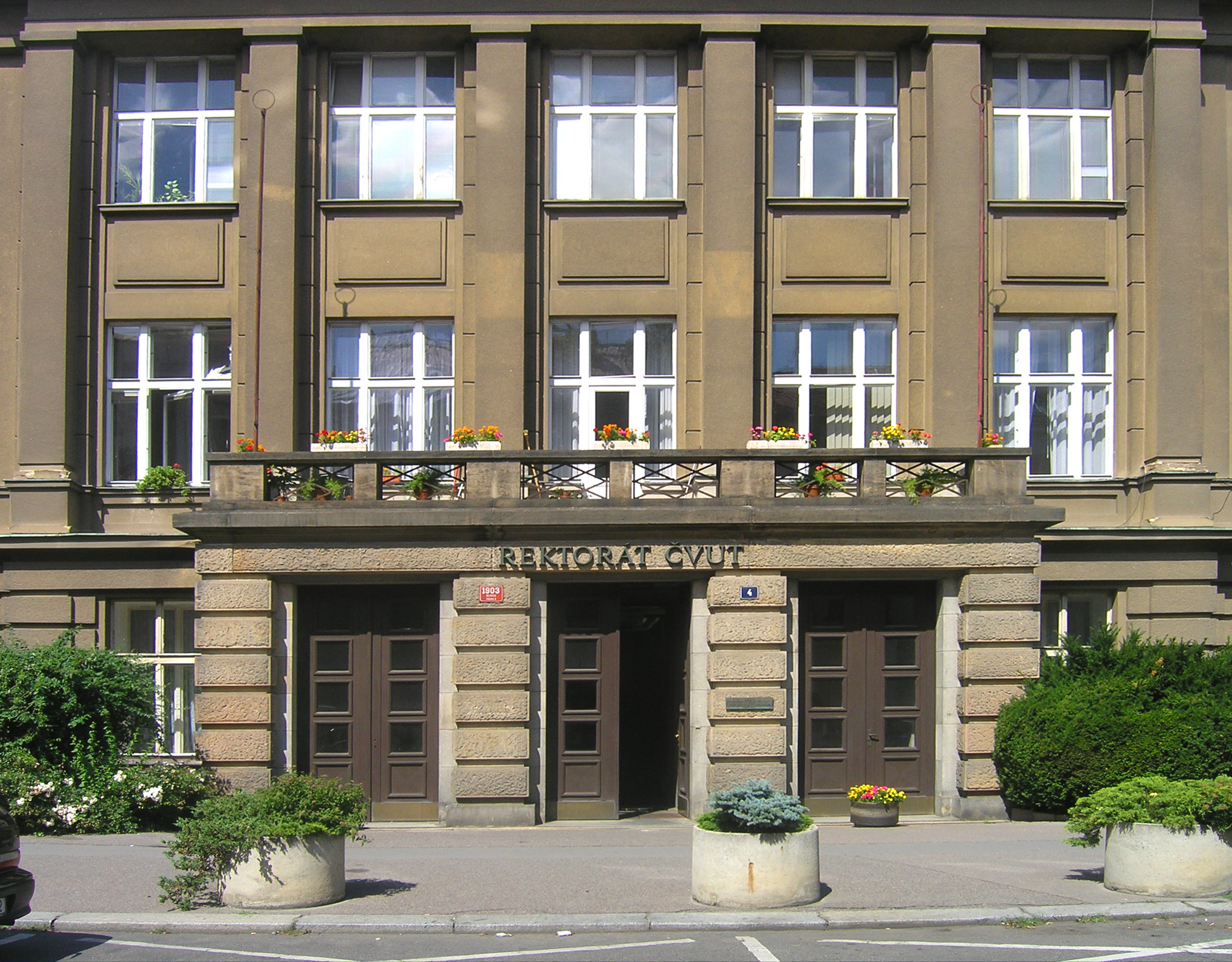 Headquarters of Czech Technical University at Zikova street at Dejvice, Prague